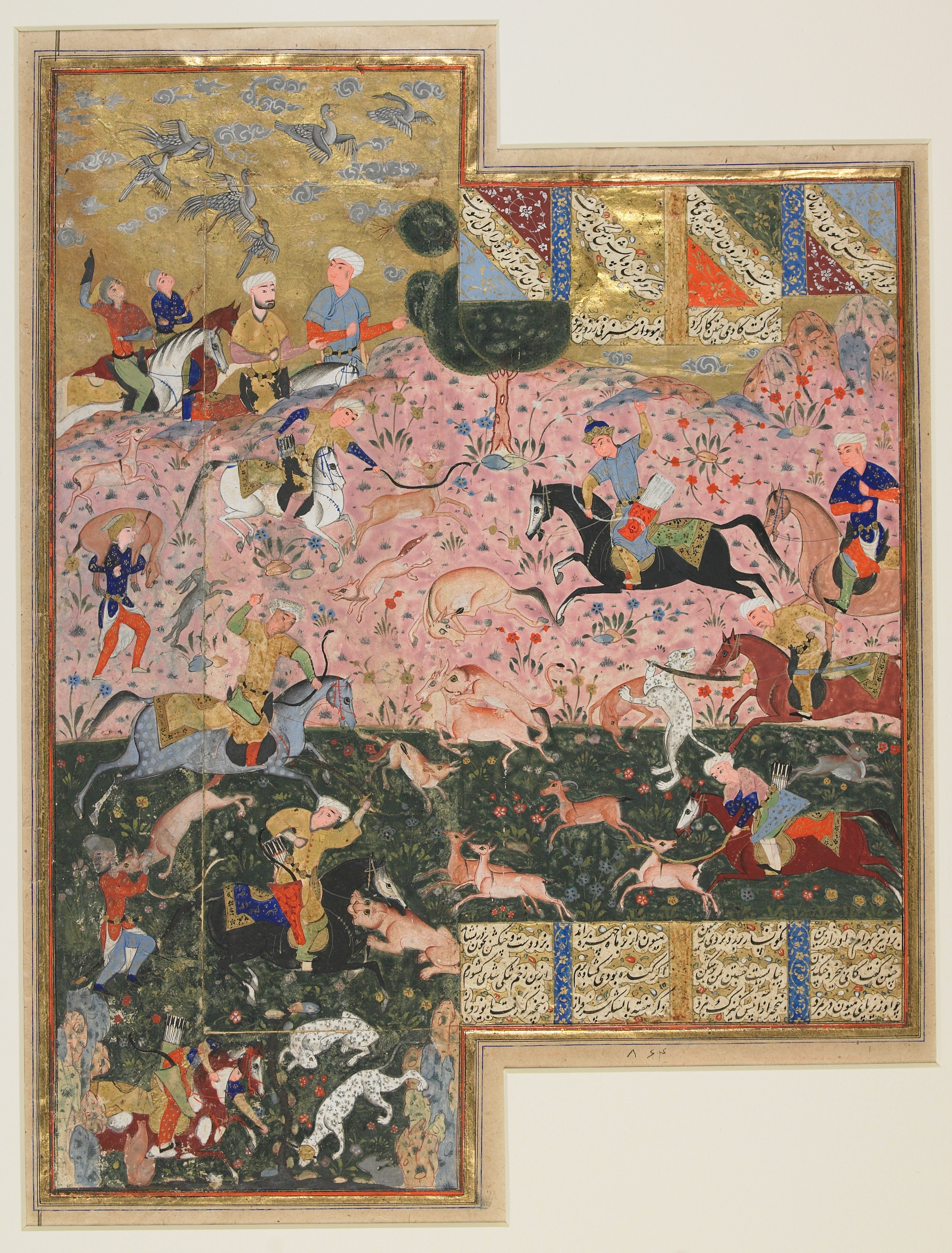 This painting represents an episode drawn from Nizami's "Haft Paykar" (The Seven Thrones), the fourth book of his "Khamsah" (Quintet). The great Sasanian king Bahram Gur (r. 430-38), famous for his hunting powers and thus nicknamed "wild ass" (Bahram Gur), astonishes his companions with his quasi-divine prowess at hunting onagers. After his expedition and as a gesture of generosity, he orders 1,200 onagers (half to be branded and half to be earmarked with gold rings) to be distributed among his people. Script: nasta'liq.